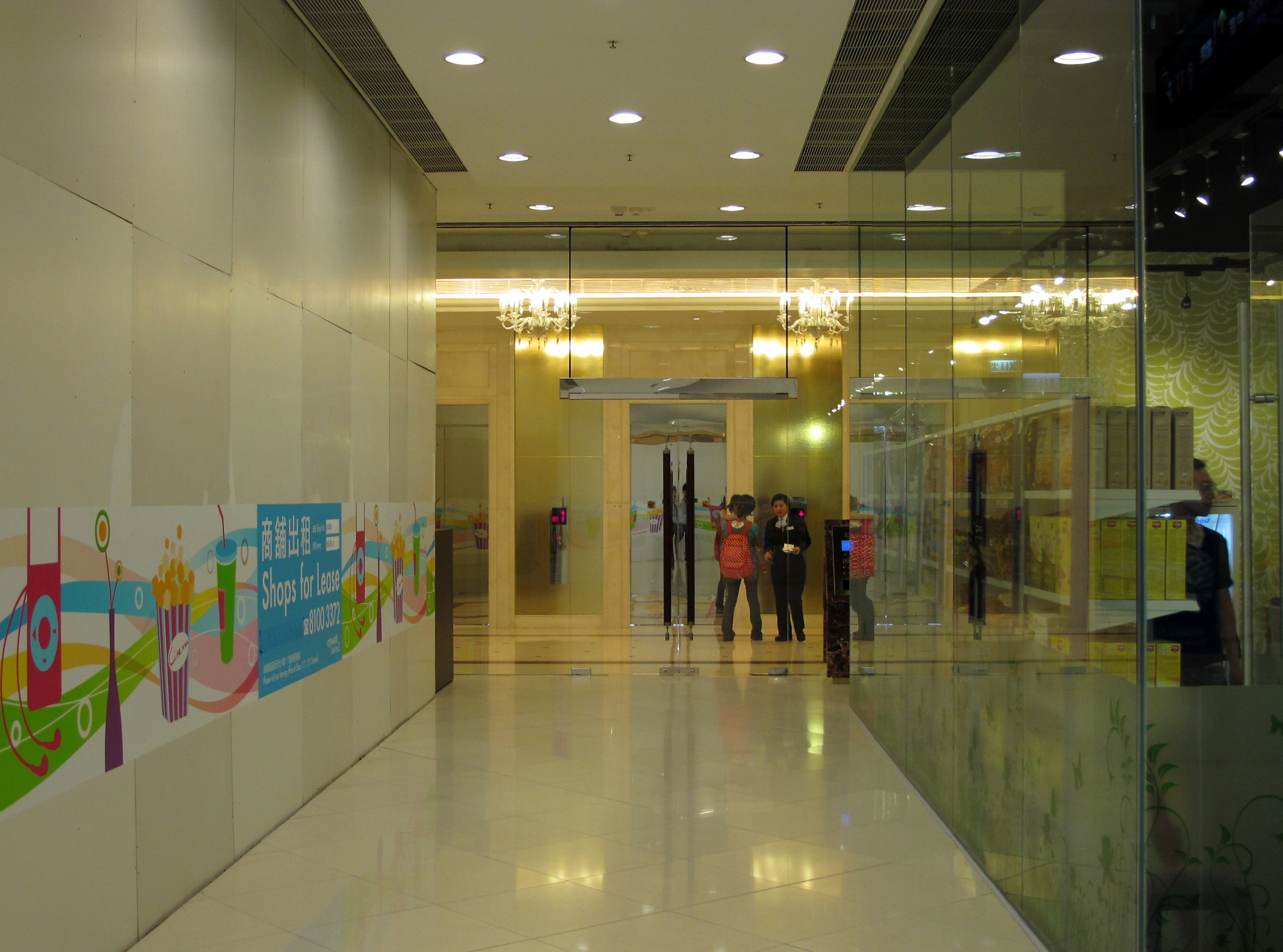 The Dynasty Liftlobby in Citywalk Phase 2